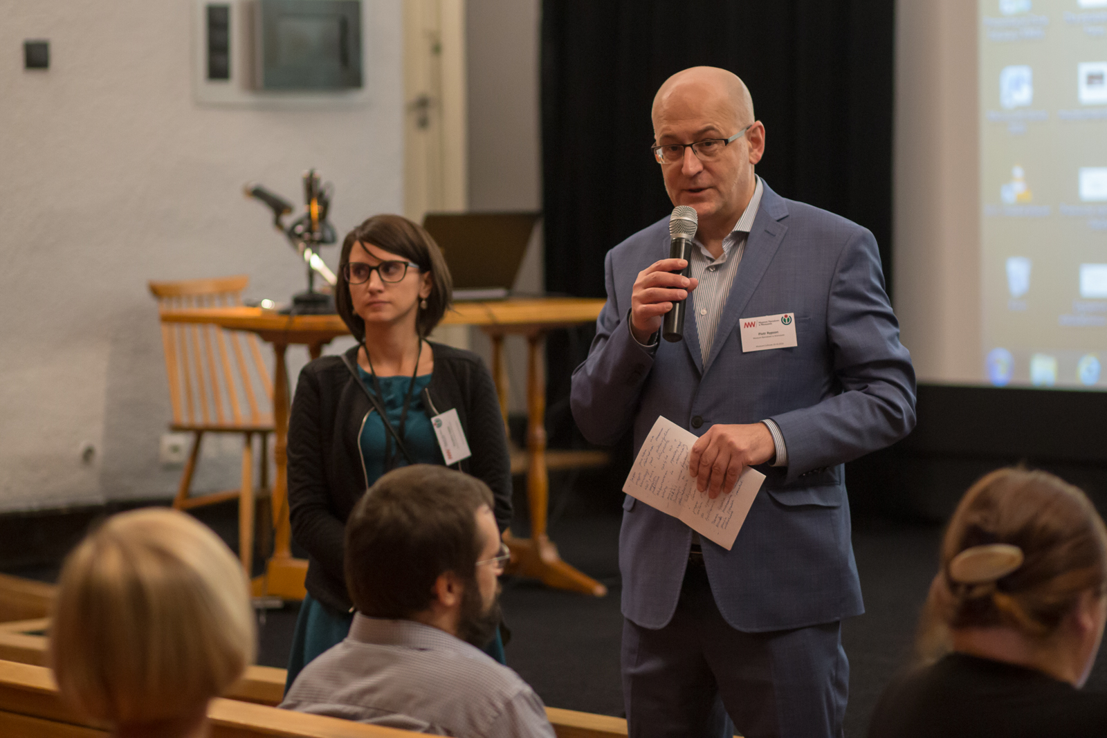 Digital Museum conference at the National Museum in Warsaw, 19 October 2016